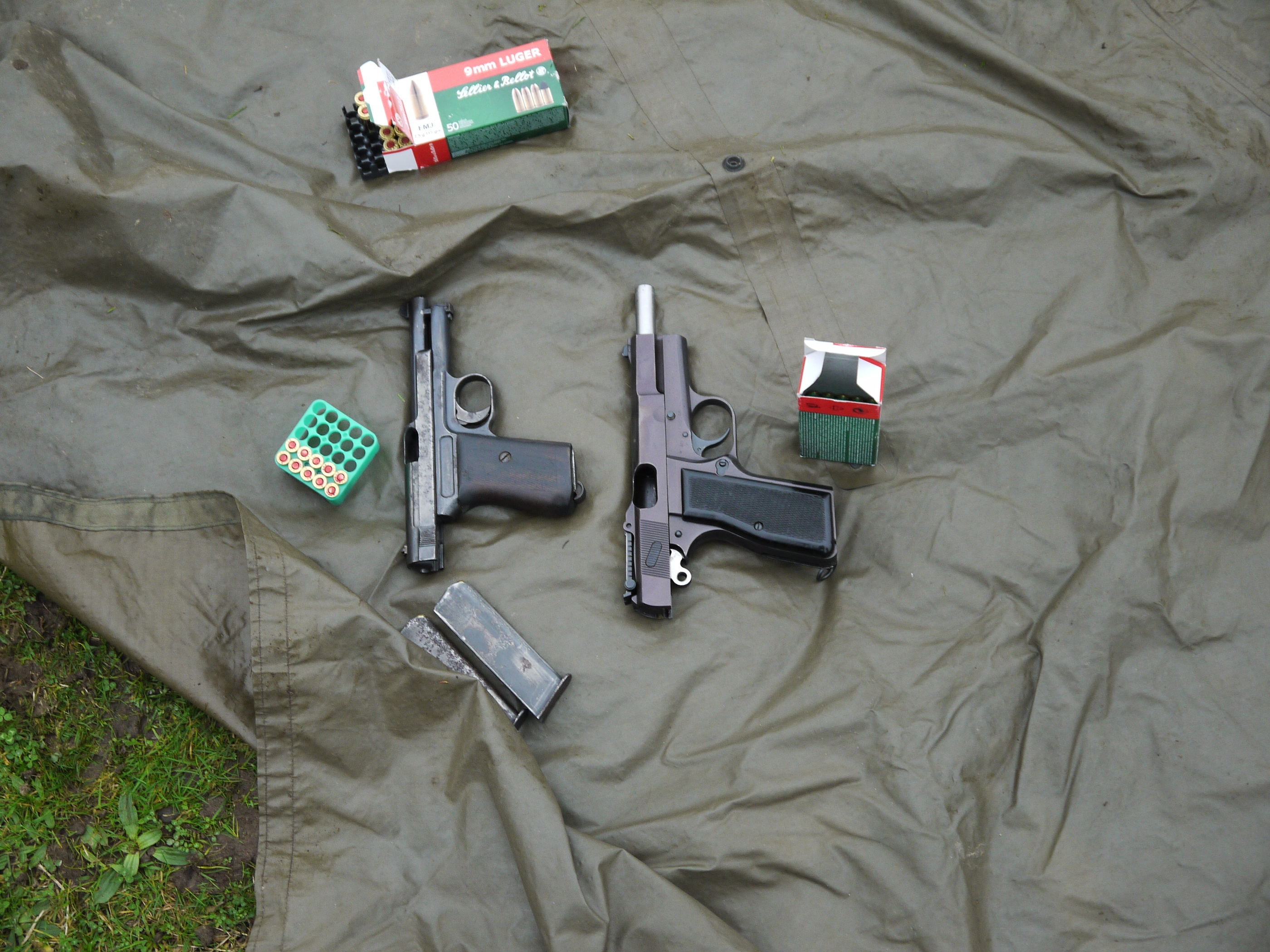 mauser pocket pistol next to browning for comparison.